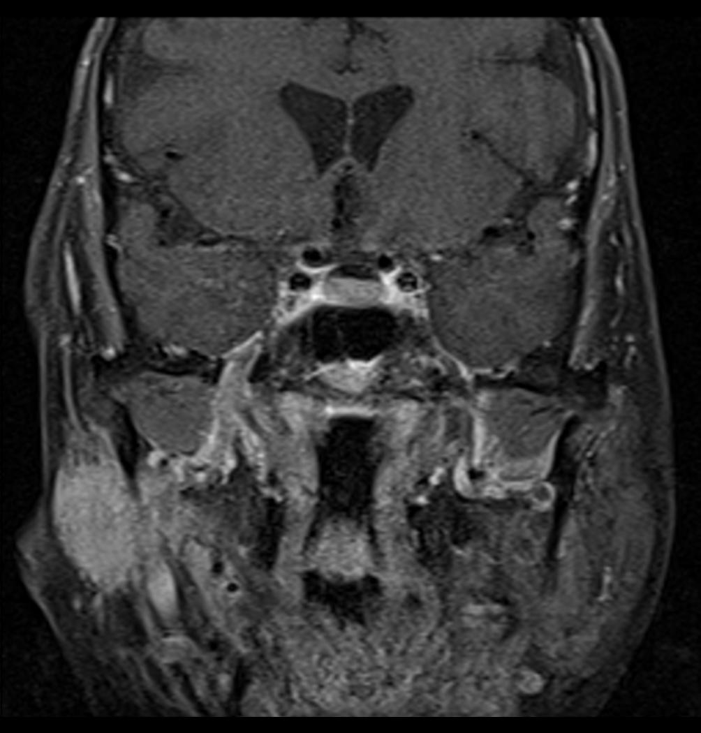 Coronal fat-suppressed post gadolinium enhanced T1-weighted image showing and enhancing right parotid mass with perineural spread of tumor along the trigeminal nerve.